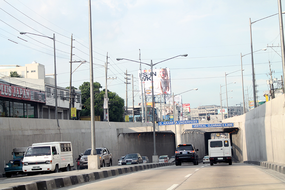 Gregorio Araneta Underpass